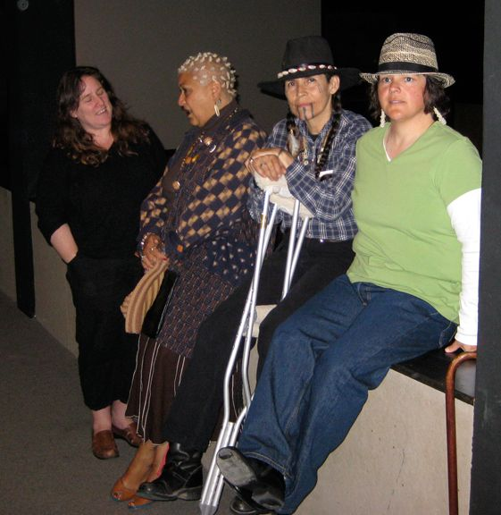 Kim Shuck (Cherokee descent-Sac and Fox), Jewelle Gomez (Iowa-descent), L. Frank (Tongva-Acjachemen) and Reid Gómez (a Navajo writer)